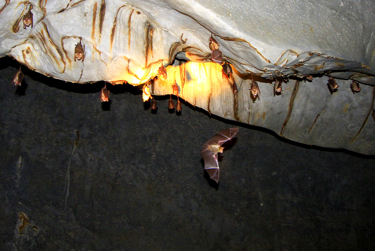 Underground River in Puerto Princesa, Palawan